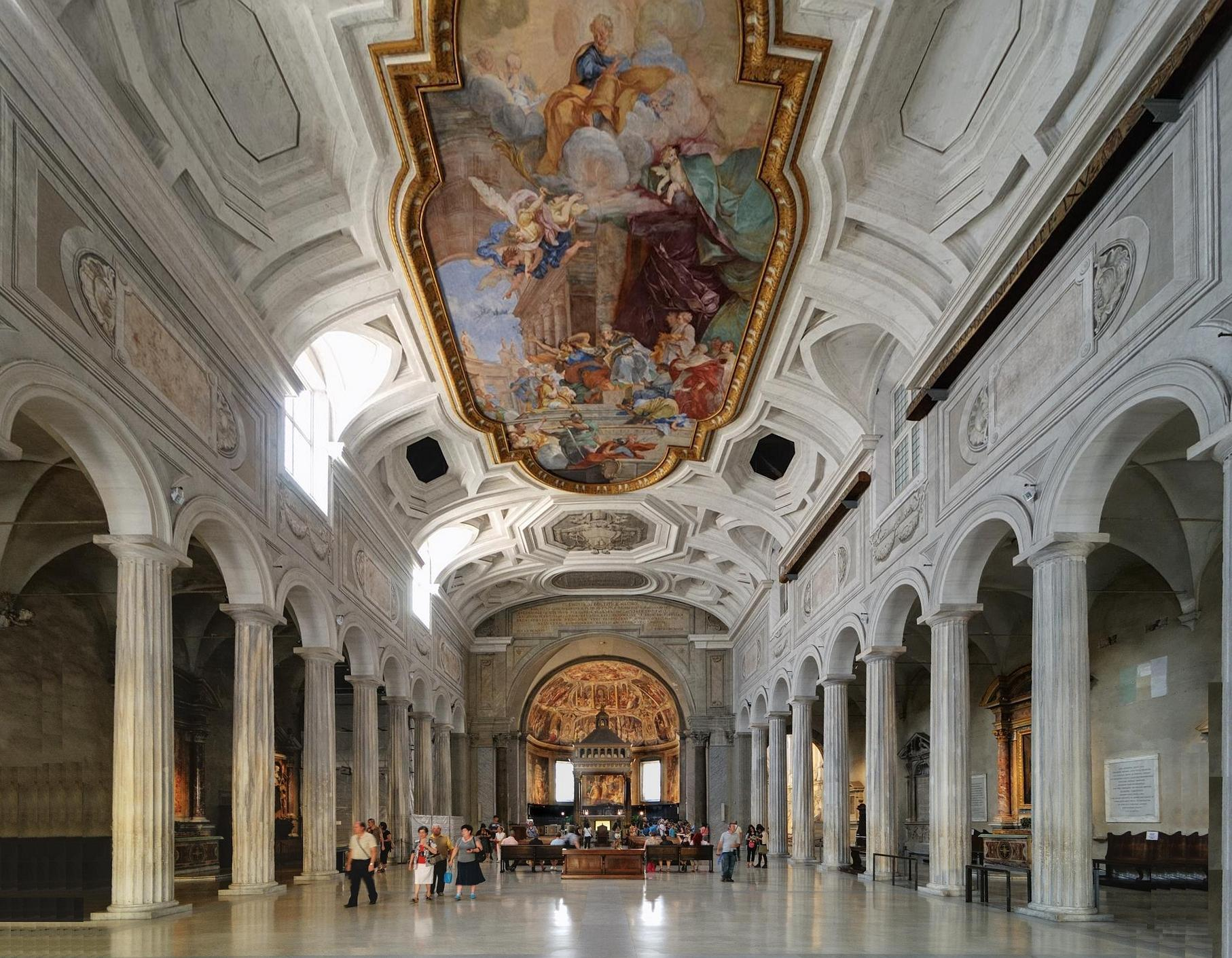 The interior of San Pietro in Vincoli, Rome